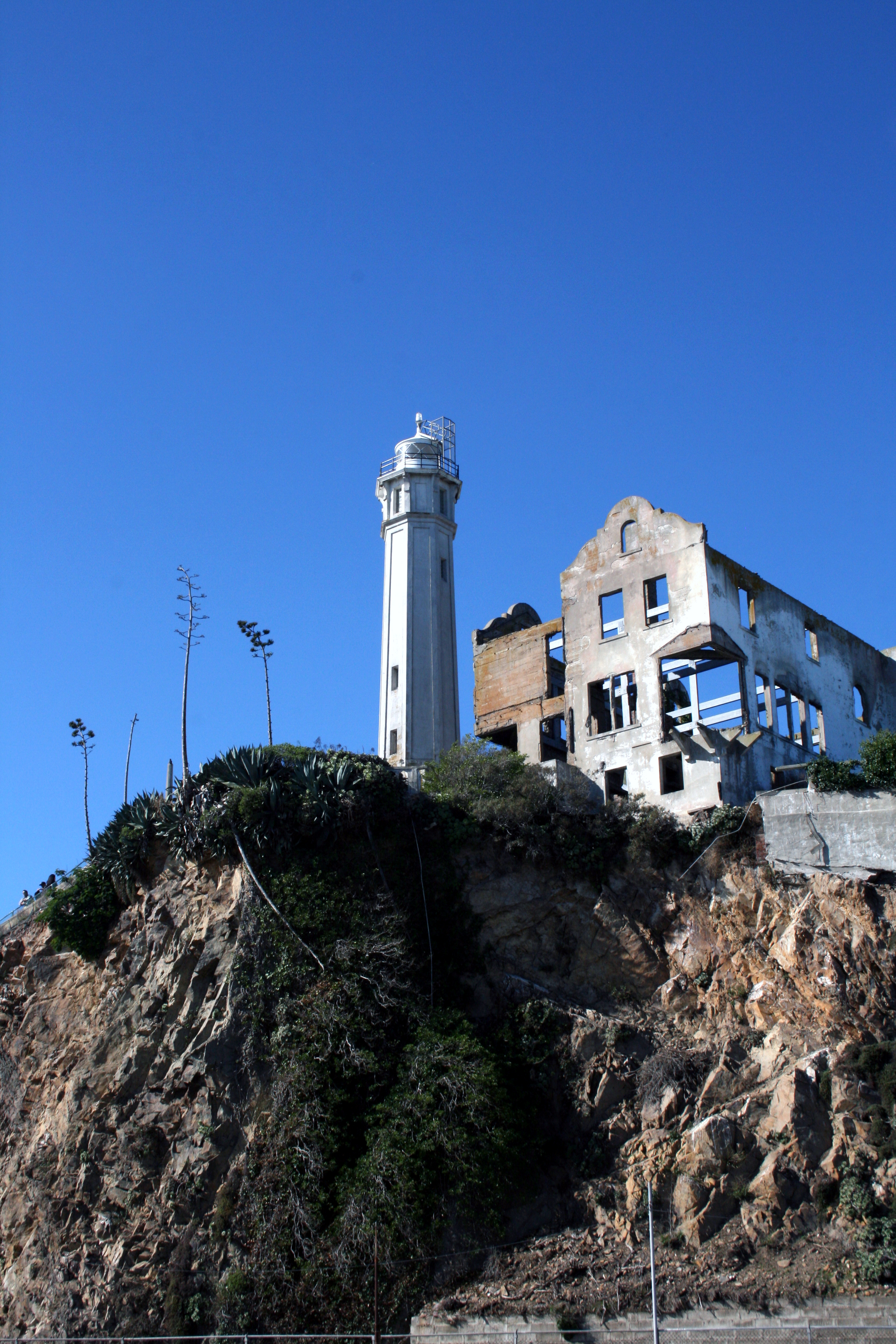 Alcatraz Island Light off the coast of San Francisco, California